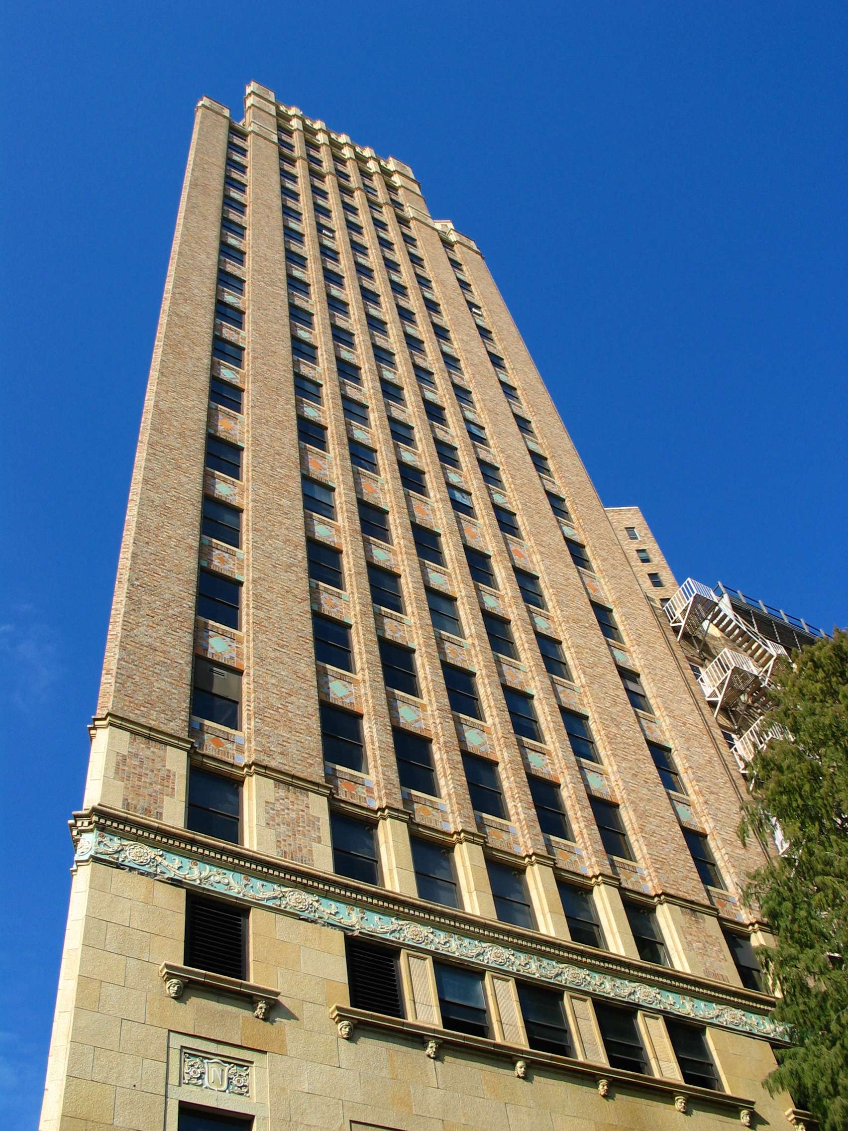 Nix Professional Building, built 1931. Also called "the wall". Of course, it's not a wall at all, just an optical illusion. Looking up at this building from the right spot on the San Antonio River, this is what you see.